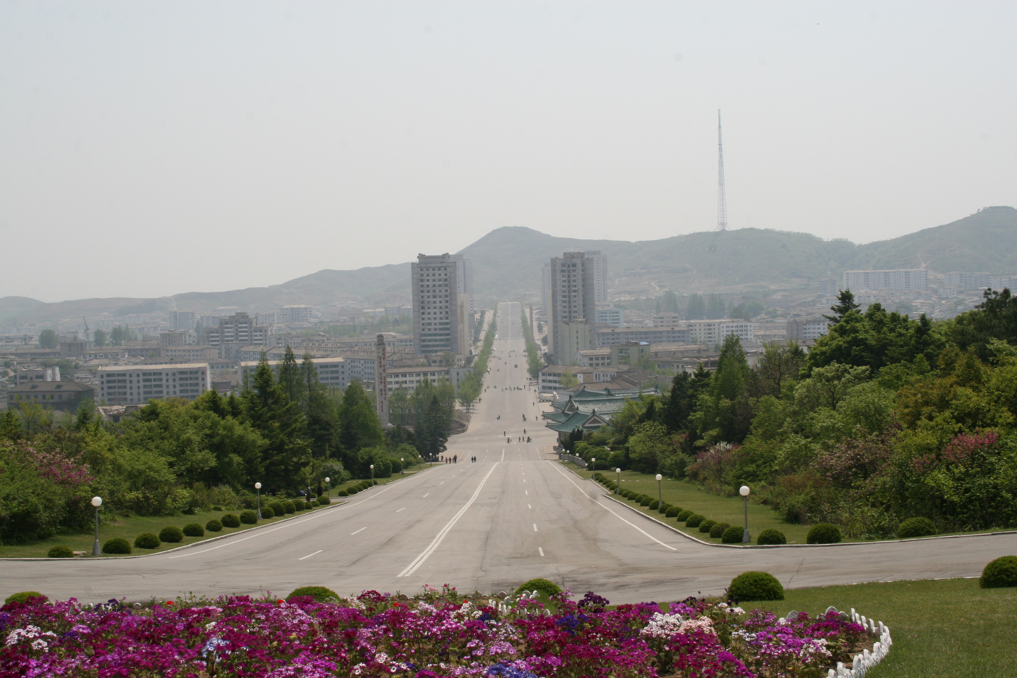 Kaesong, the historic Korean capital